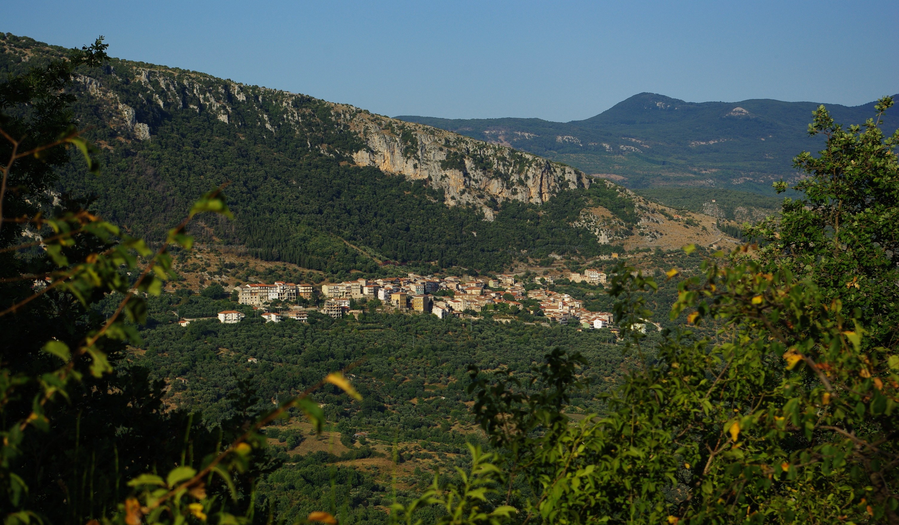 Panoramic view of Ottati and the surrounding Alburni mountains.